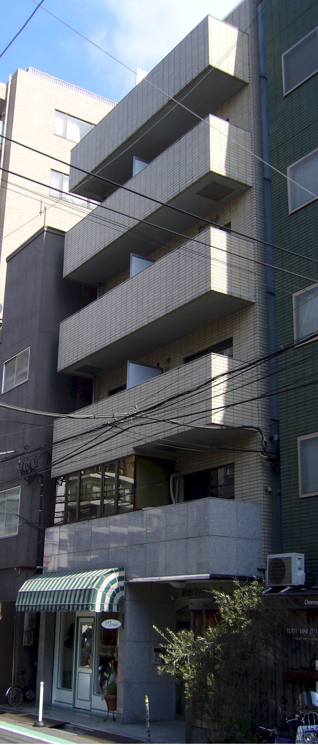 Nishiazabu NU Court (Apartment house in Tokyo, Japan)